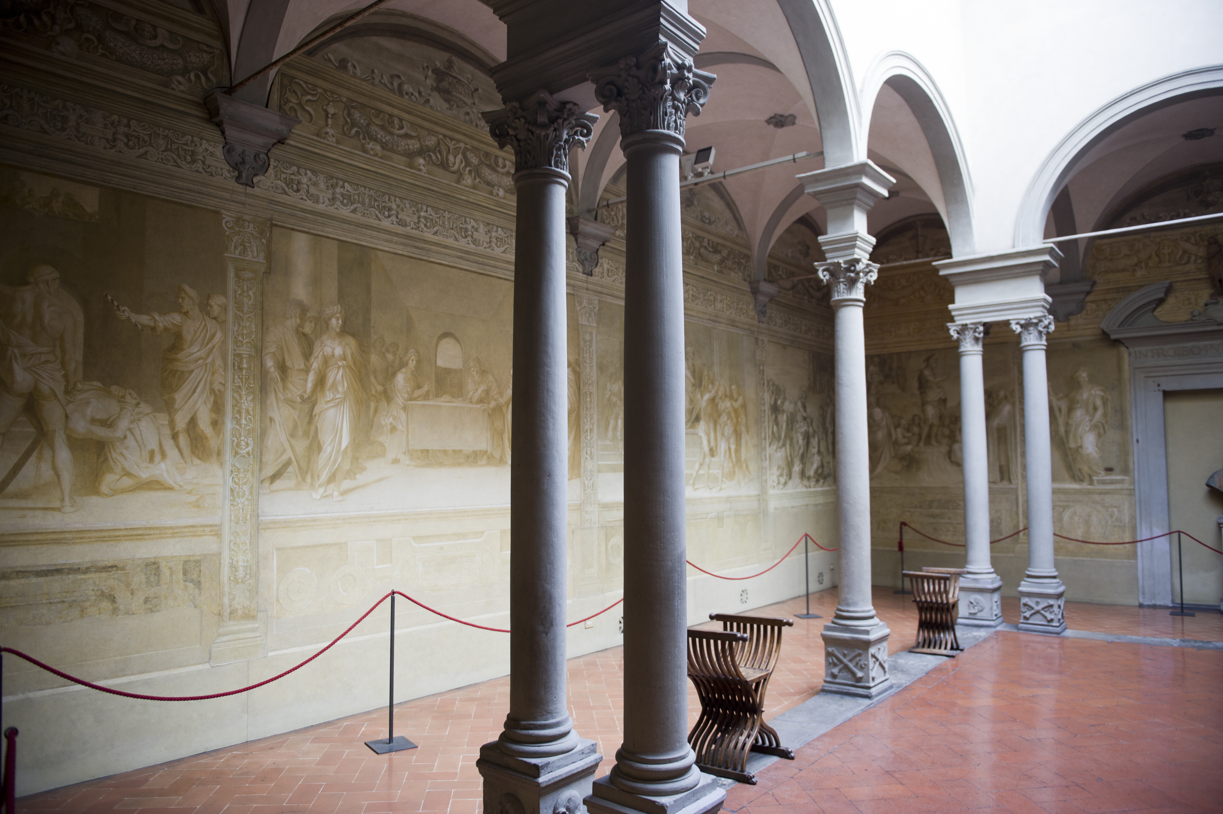 View of the frescoes